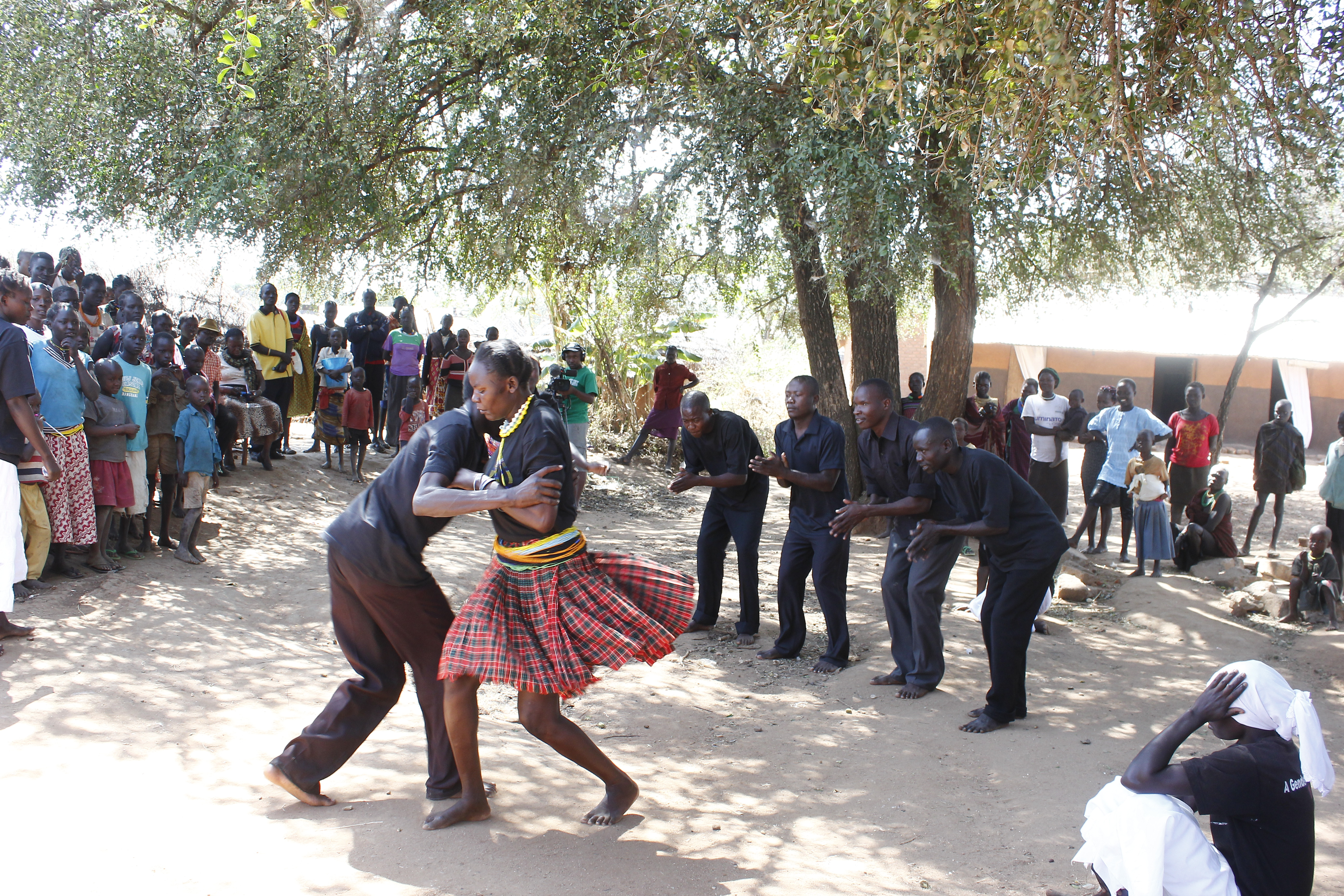 Youths in a courtship dance in Karamoja- Kabong This is an image of music and dance from Uganda